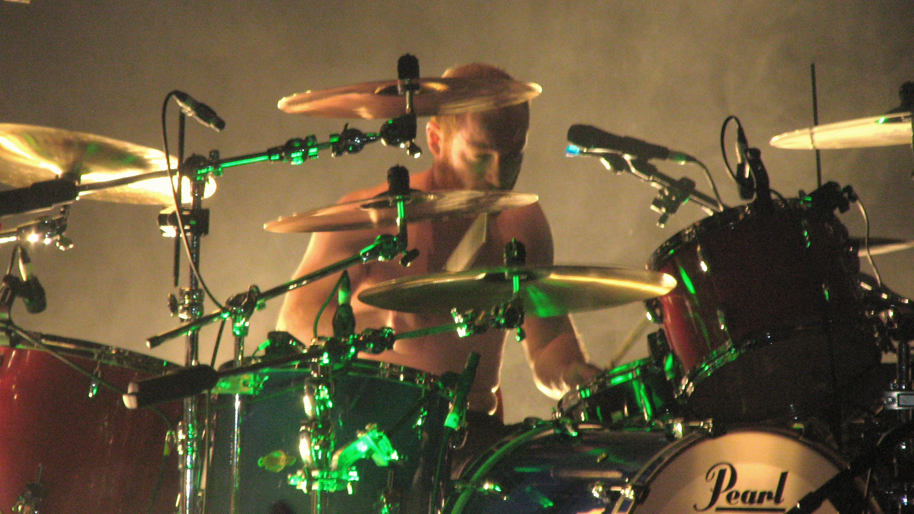 Ben Johnston drumming for Biffy Clyro at the Hammersmith Apollo in May 2010